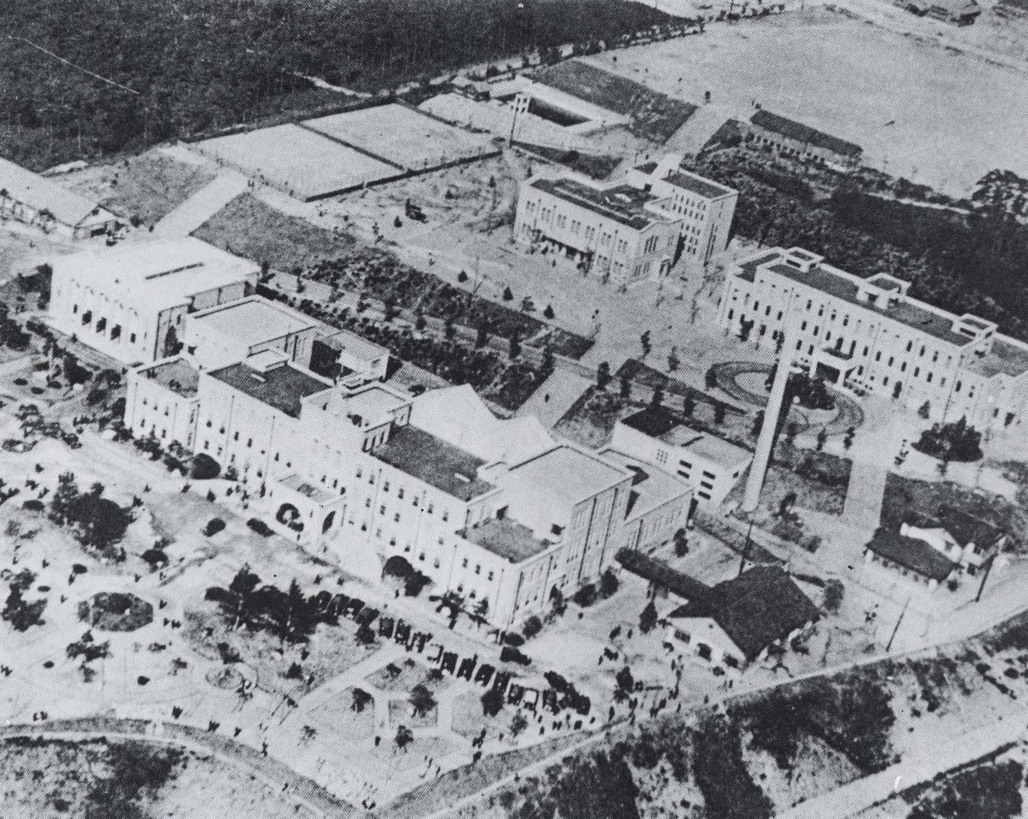 神戸商業大学全景